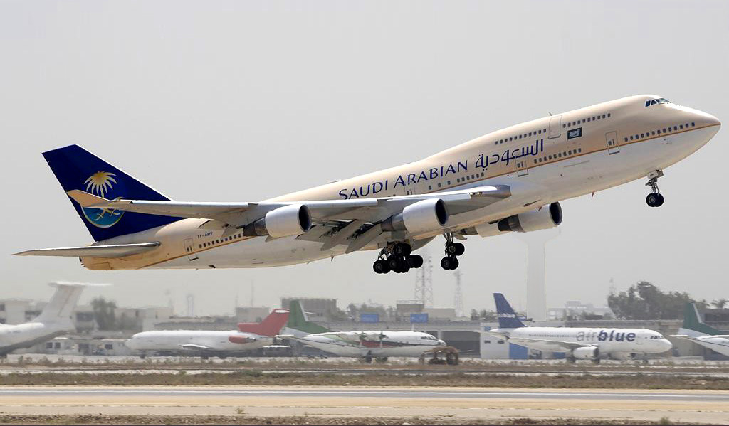 Saudi Arabian Airlines Boeing 747-412 at Jinnah International Airport, in Karachi, Pakistan